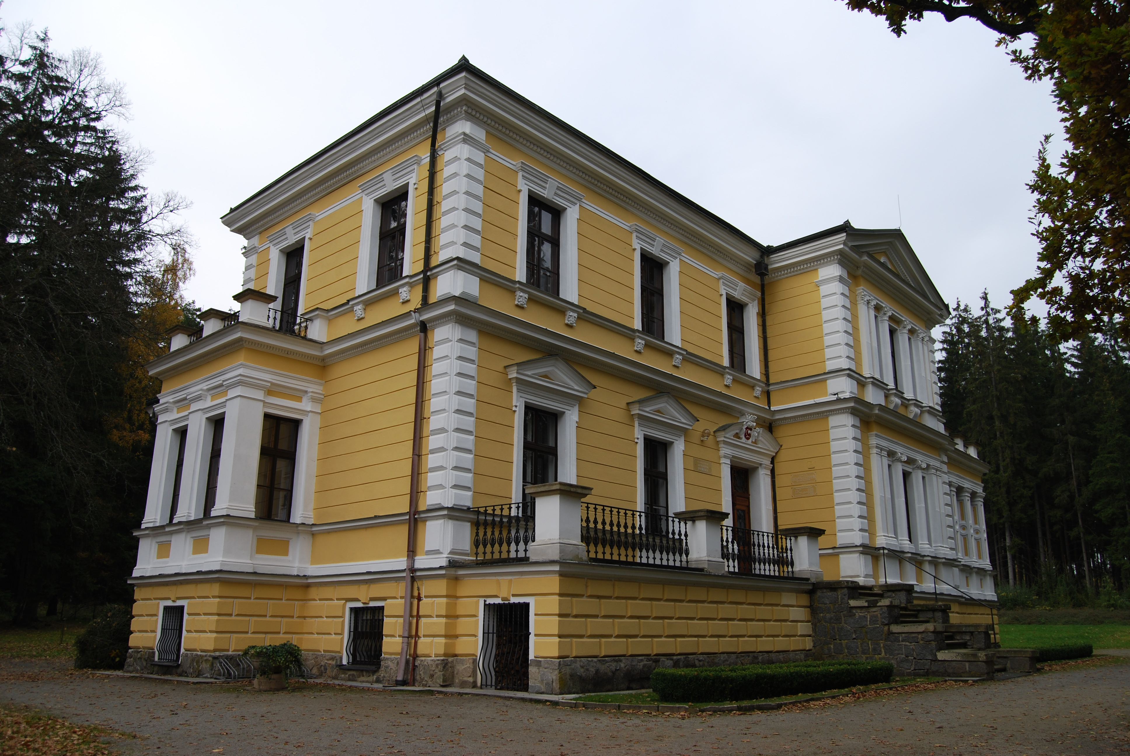 Monument of Antonín Dvořák in Vysoká u Příbrami in Příbram District, Czech Republic. Palace